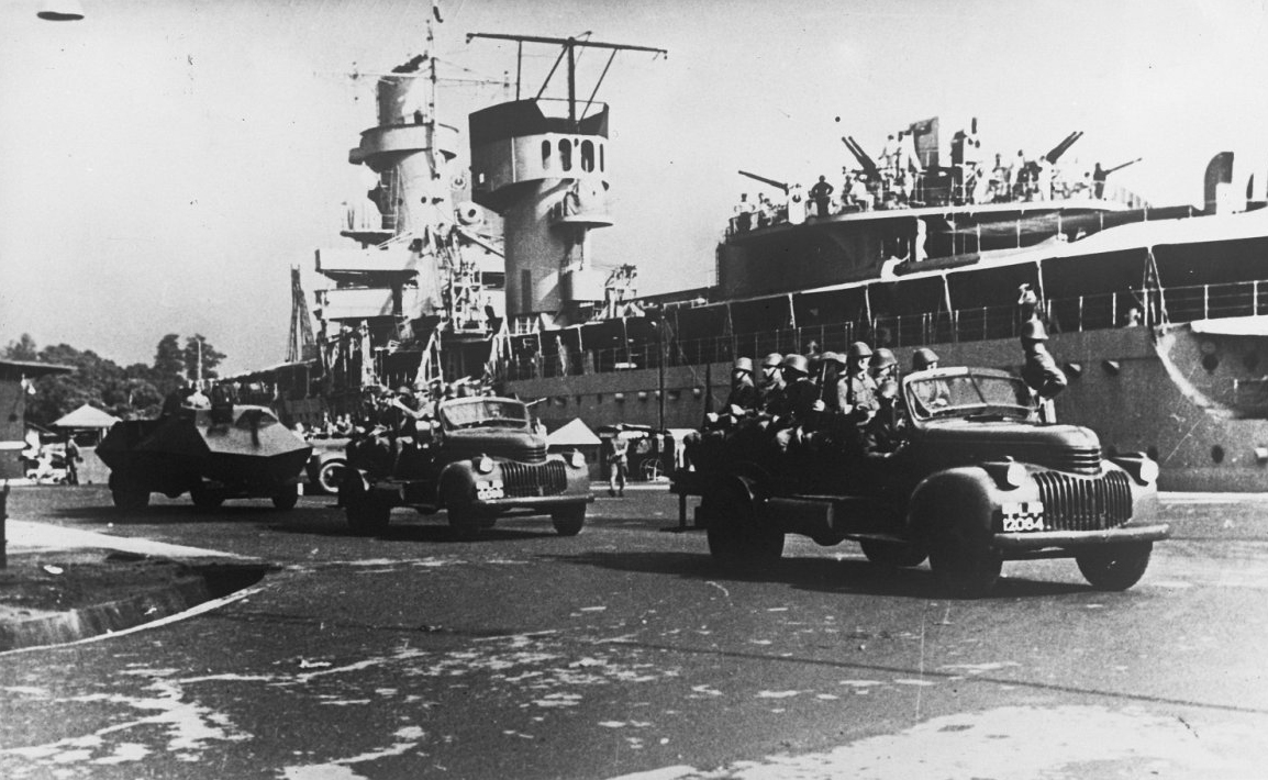 Hr. Ms. De Ruyter moored in the port of Surabaya. Passing mechanized units of the KNIL in the foreground with Braat Overvalwagen armored car in the rear